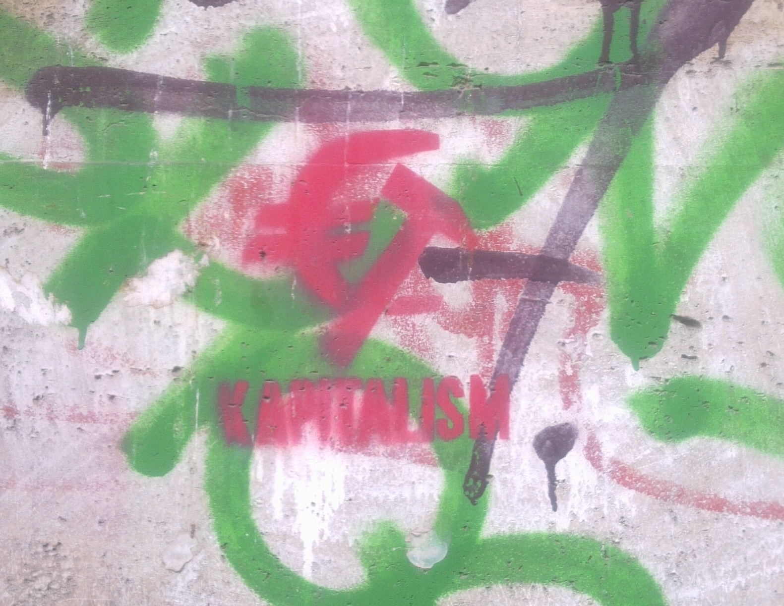 Tag on a wall in Bucharest (2013)